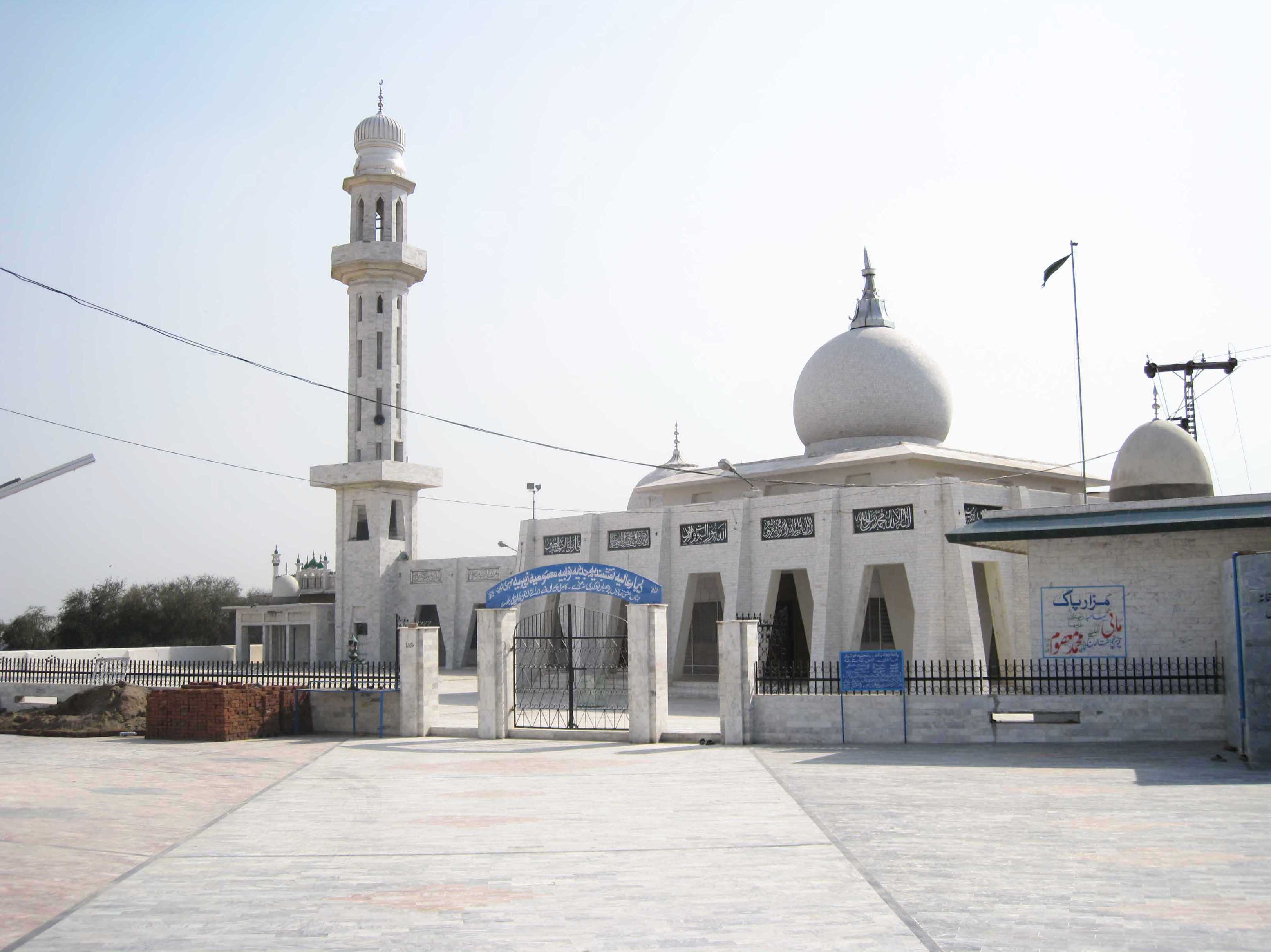 Darbar Mohri Sharif